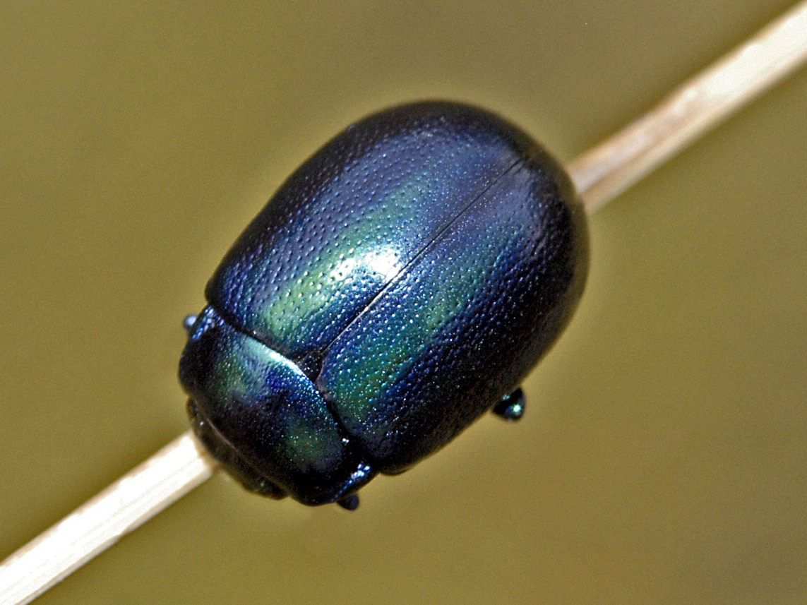 Chrysolina cerealis mixta from Italian Alps